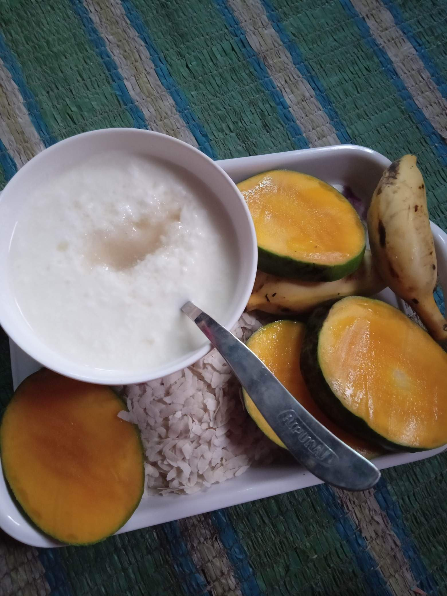 Food on National Paddy Day in Nepal: curd, beaten rice and fruit